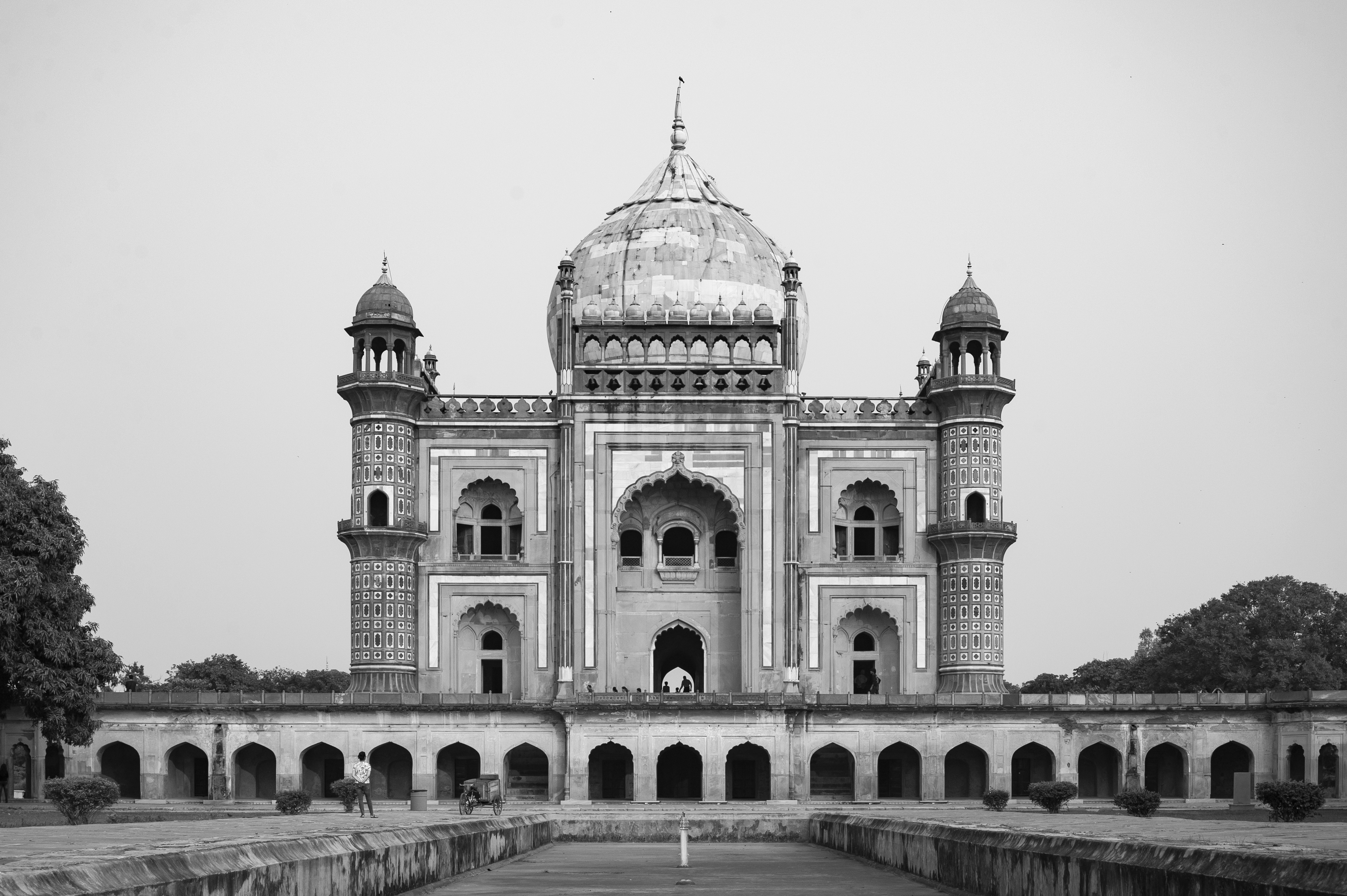 View of Safdarjung Tomb from behind